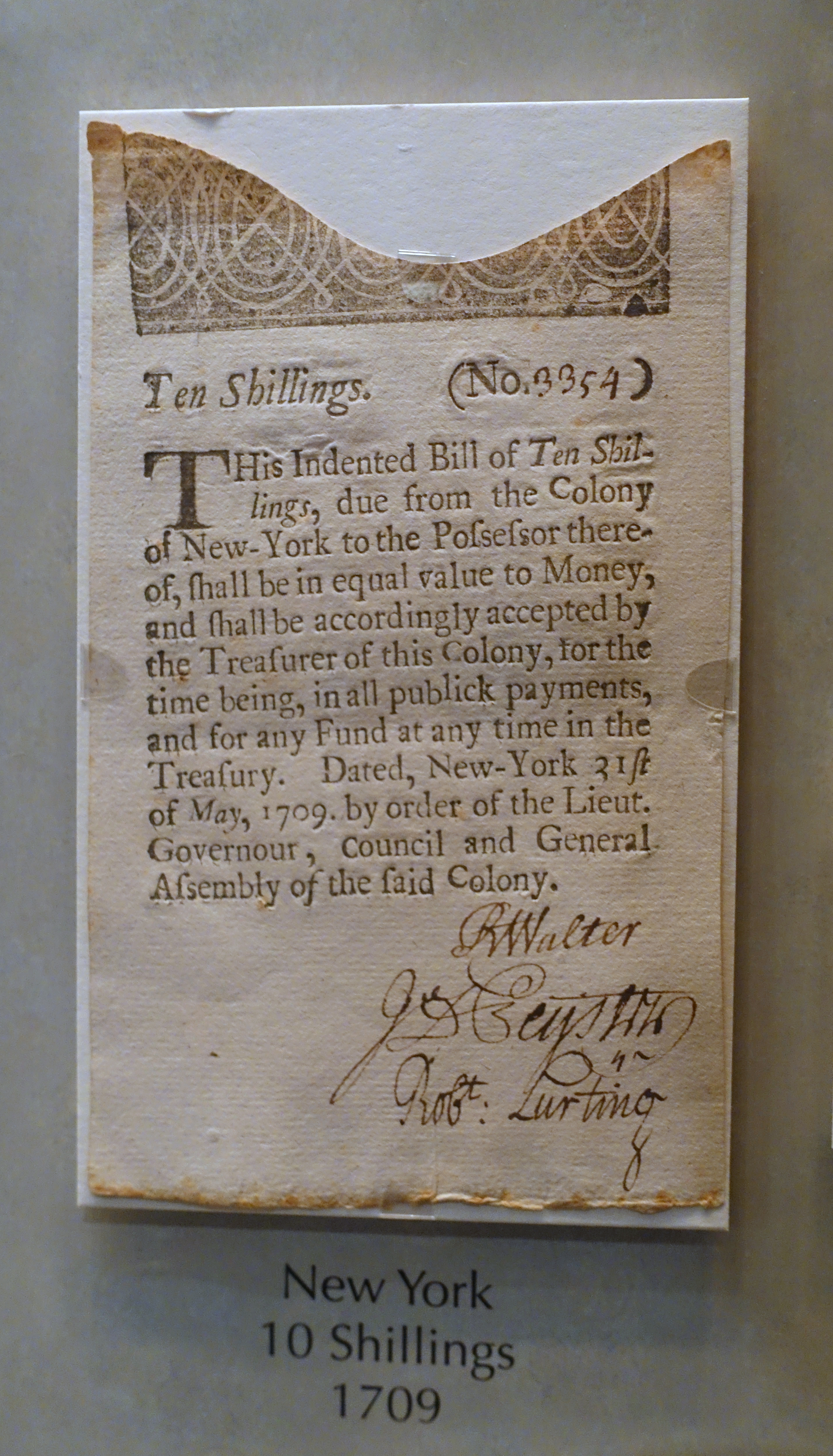 Exhibit in the National Museum of American History, Washington, DC, USA.